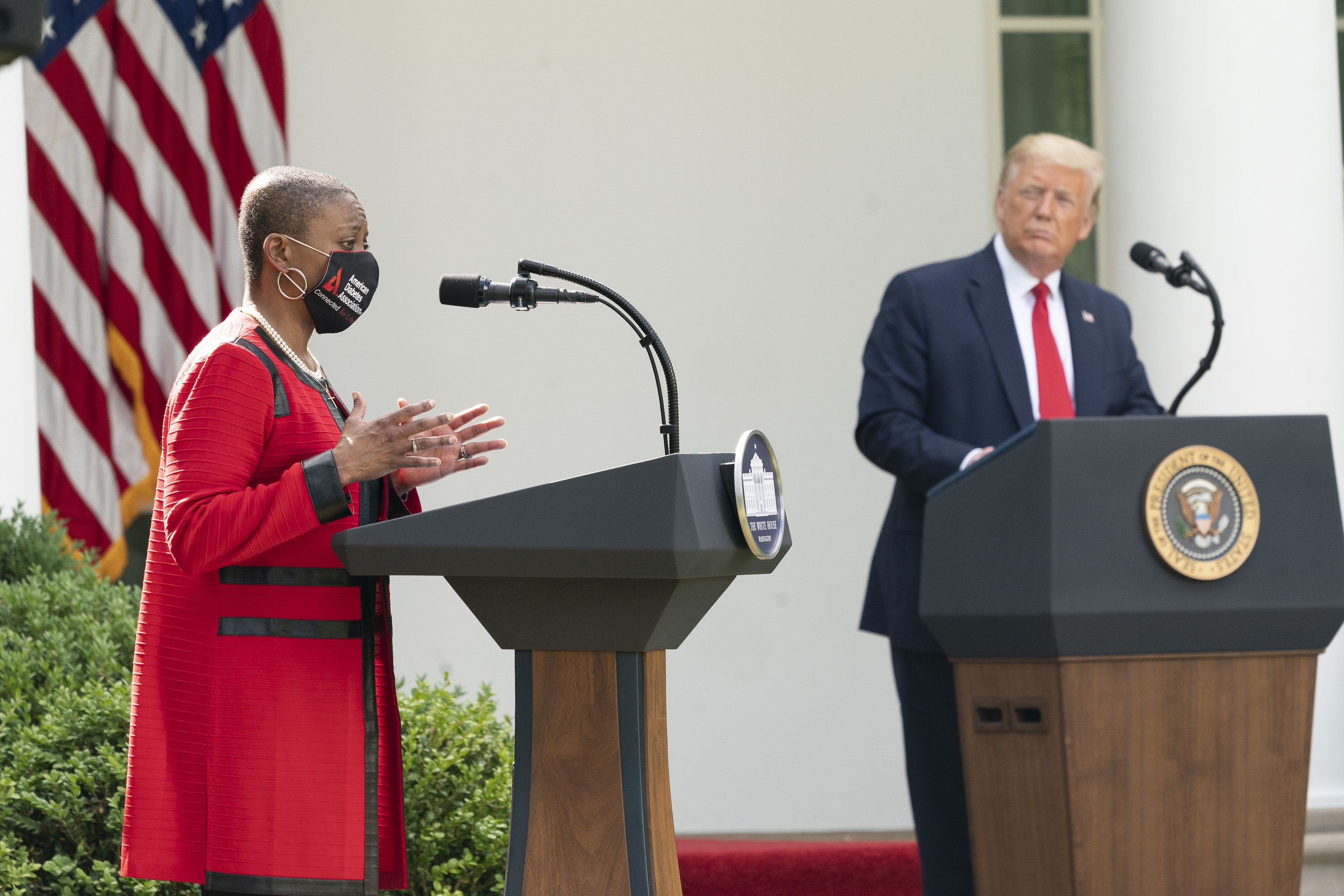 President Donald J. Trump listens as Tracey Brown, CEO of the American Diabetes Association, delivers remarks on protecting seniors with diabetes Tuesday, May 26, 2020, in the Rose Garden of the White House, where President Trump announced the results of the Part D Senior Savings Model that will provide Medicare patients with new choices of Part D plans that offer insulin at an affordable and predictable cost. (Official White House Photo by Joyce N. Boghosian)